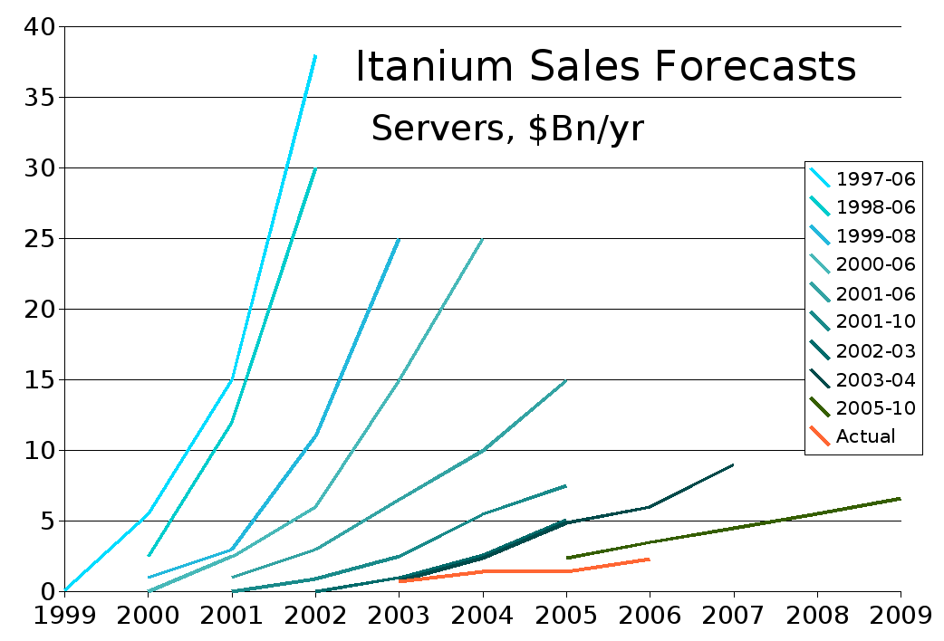 Graphs of various forecasts of Itanium server sales over time. I, Arch_Dude, am the creator of this chart. I used Openoffice.calc to graph data taken from a chart on the web and from articles on the web. I then converted to PNG since my export to SVG failed. Data points are yearly global server sales in Billions USD. Chart is intended for the new consolidated Itanium article at Wikipedia.en.